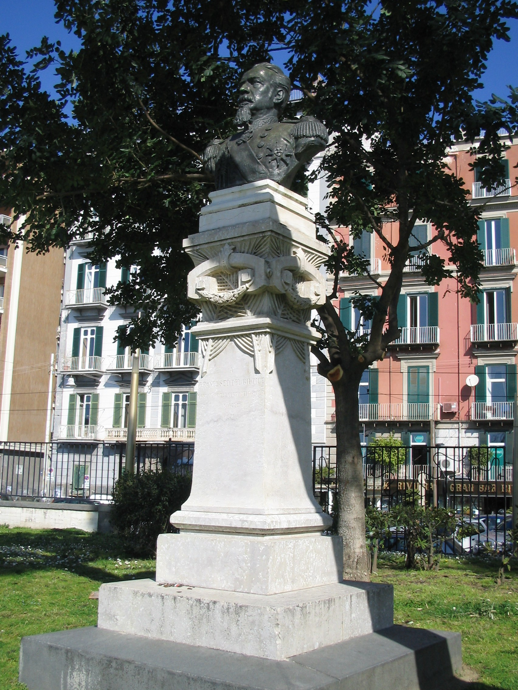 Bronze sculpture of Francesco Del Giudice a precursor of fire fighting machinery in Naples, Italy.